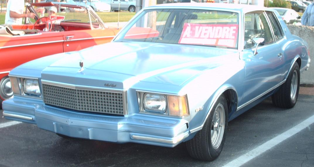 1978-1979 Chevrolet Monte Carlo photographed in Montreal, Quebec, Canada at Gibeau Orange Julep.